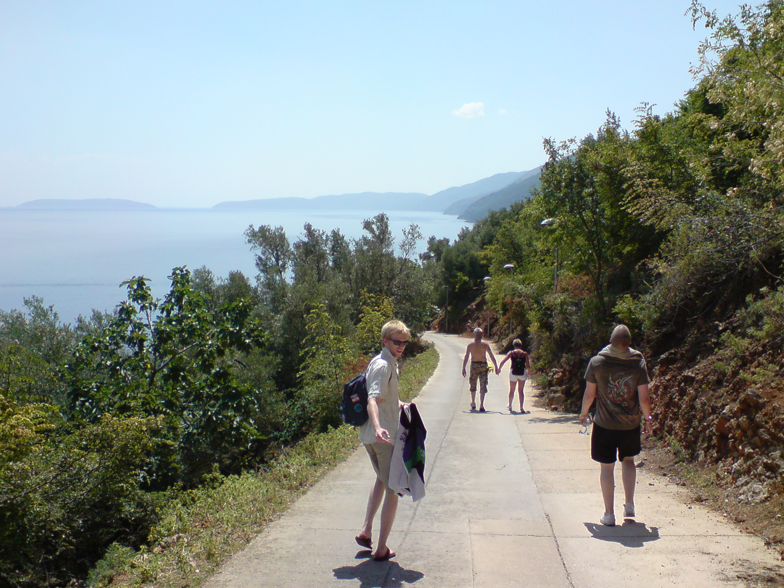 Walking down to the beach at Beli, Croatia.